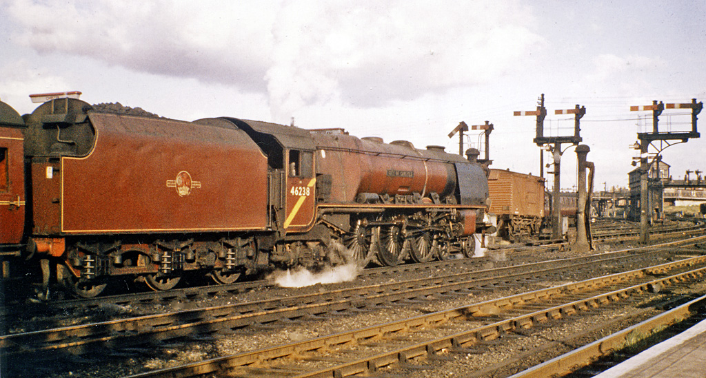 Chester General, east end with a 'Coronation' 4-6-2 demoted to working an Up Holyhead express. View eastward, towards Manchester and Crewe; ex-London & North Western Crewe/Manchester - Holyhead/Birkenhead main lines. No. 46238 'City of Carlisle' is now sporting the 'Not on Electrified Lines' yellow stripes, as it waits at Platform 10 on a Holyhead to Birmingham New Street express. On the right is Chester No. 2 Box.